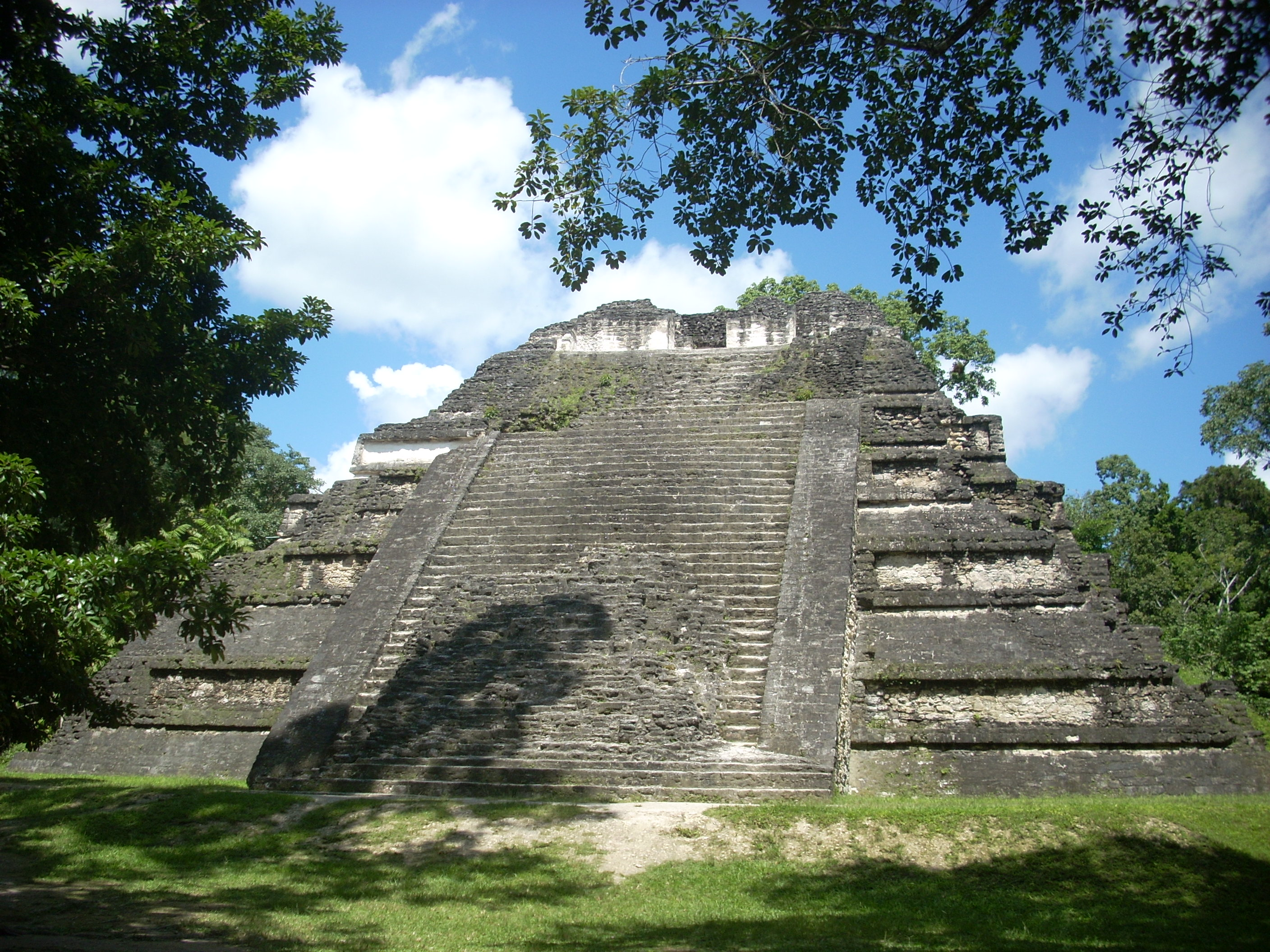 Early Classic pyramid 5C-49 in the Mundo Perdido complex of Tikal, Peten, Guatemala.